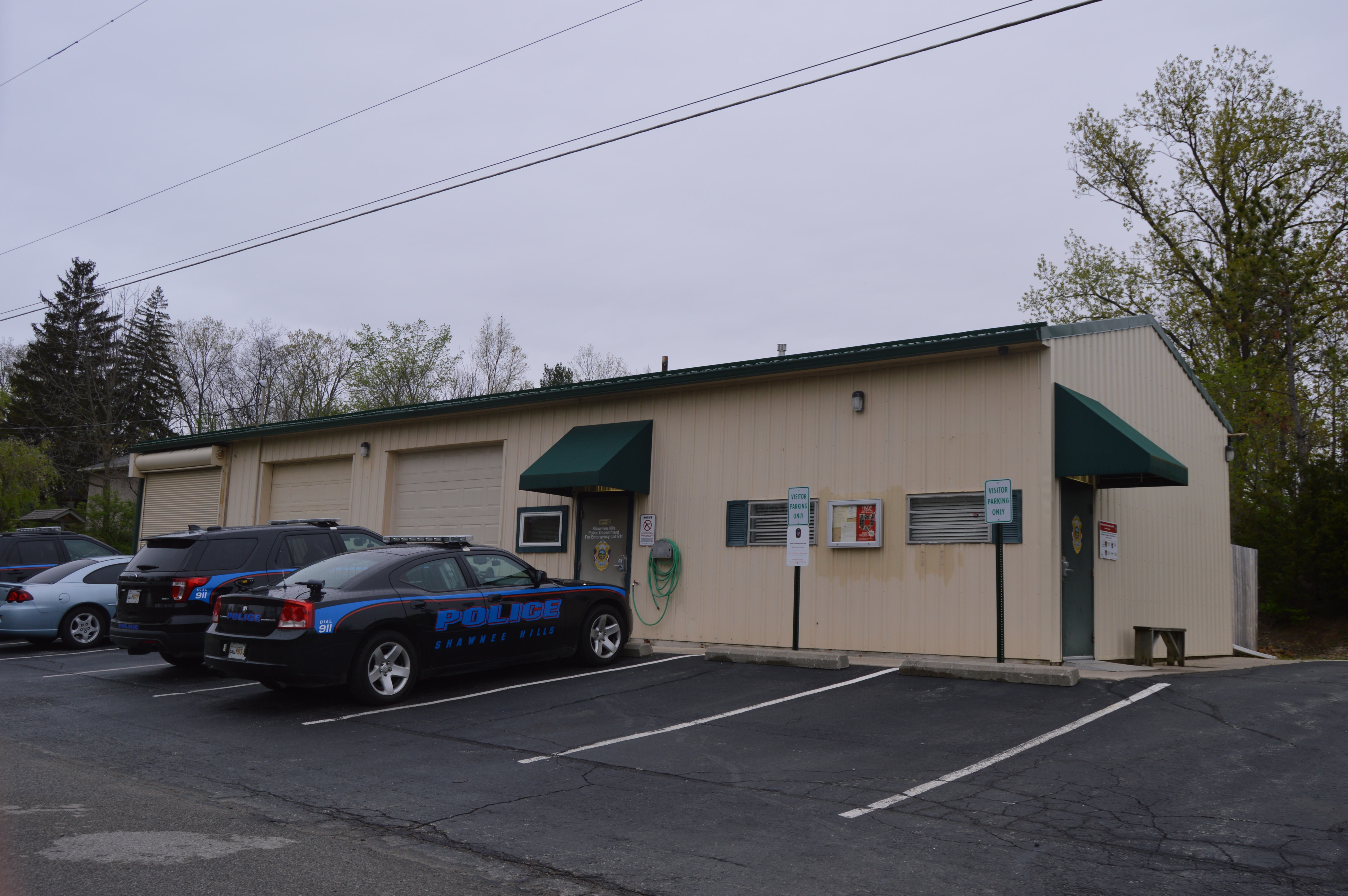 Front and eastern end of Village Hall in Shawnee Hills, Ohio, United States, located at 40 W. Reindeer Drive.